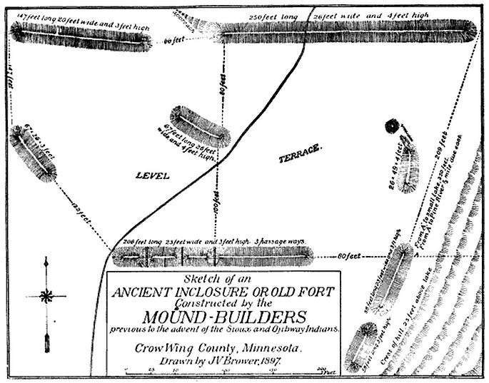 Survey map of the Fort Flatmouth Mounds, Crow Wing County, Minnesota, USA. Hand-drawn by Jacob V. Brower and published in 1897.